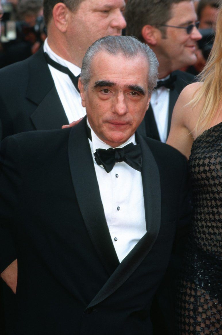 Martin Scorsese at Cannes in 2002. My own picture.